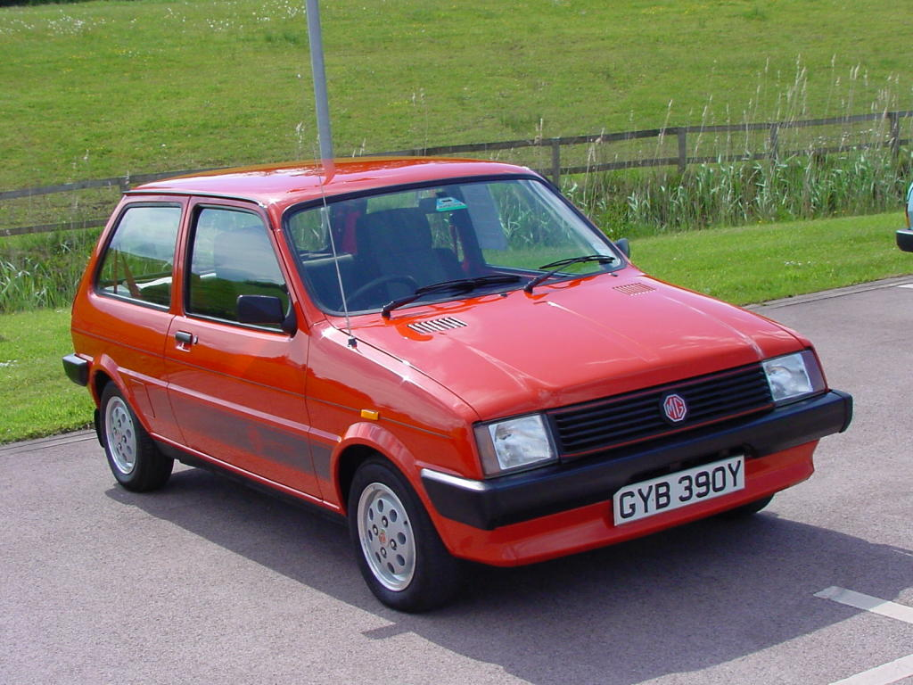 January 1983 red MG Metro 1300. Metro 30th Anniversary at Heritage Motor Centre, Gaydon, UK